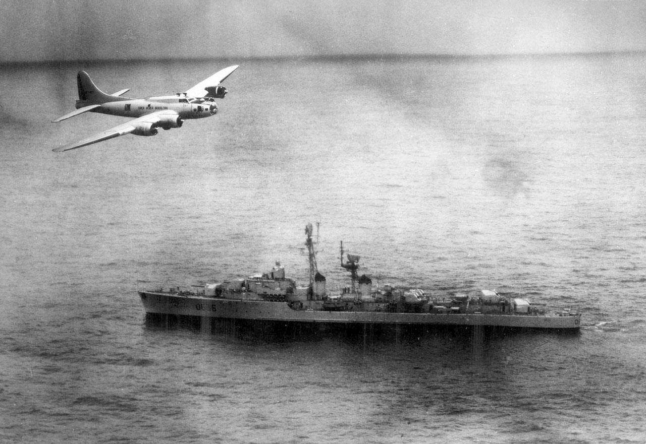 A Brazilian Boeing B-17 Flying Fortress flies over the French destroyer Tartu (D636) off Brazil during the 1963 "Lobster War".